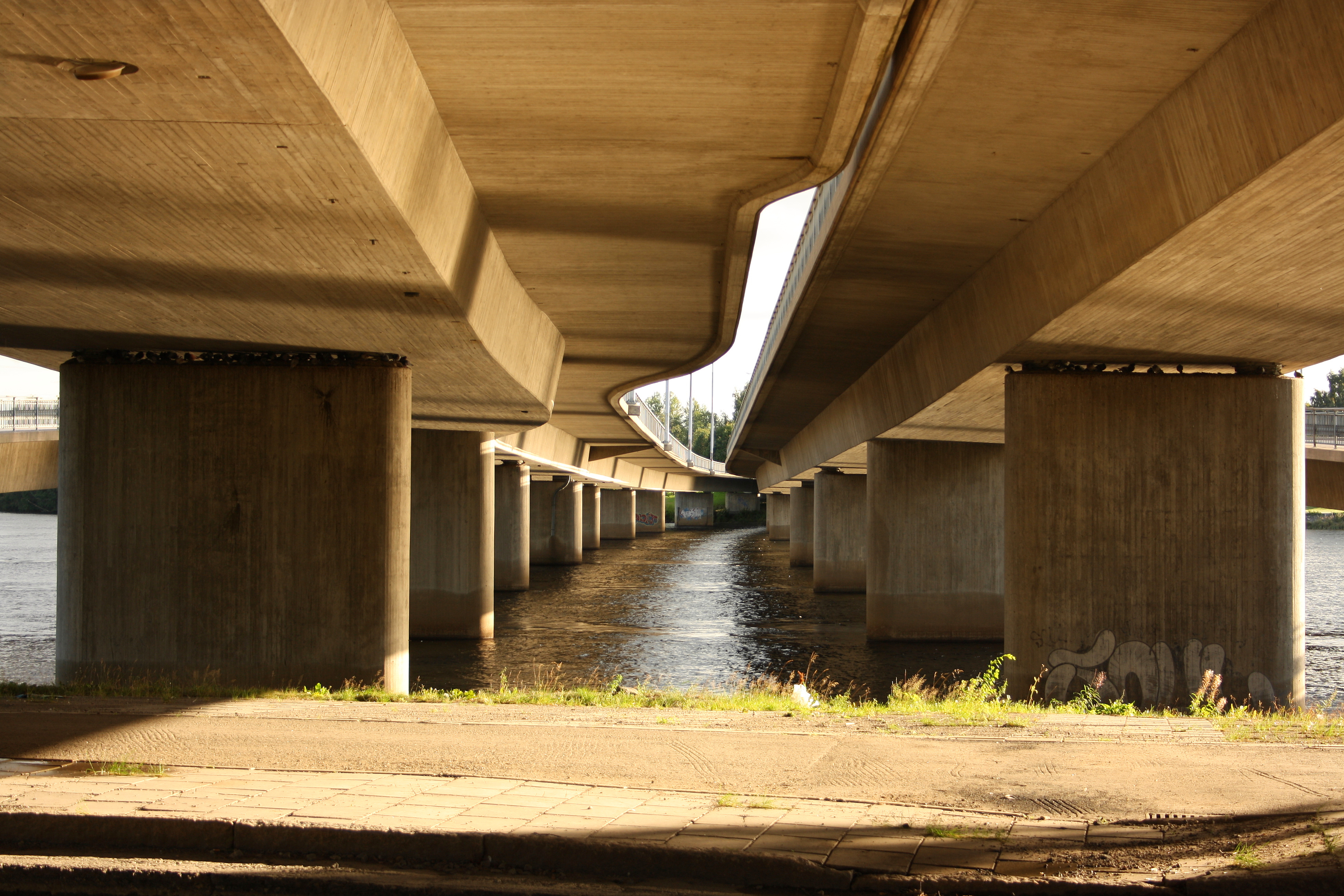 Kyrkbron (the Church Bridge) from below